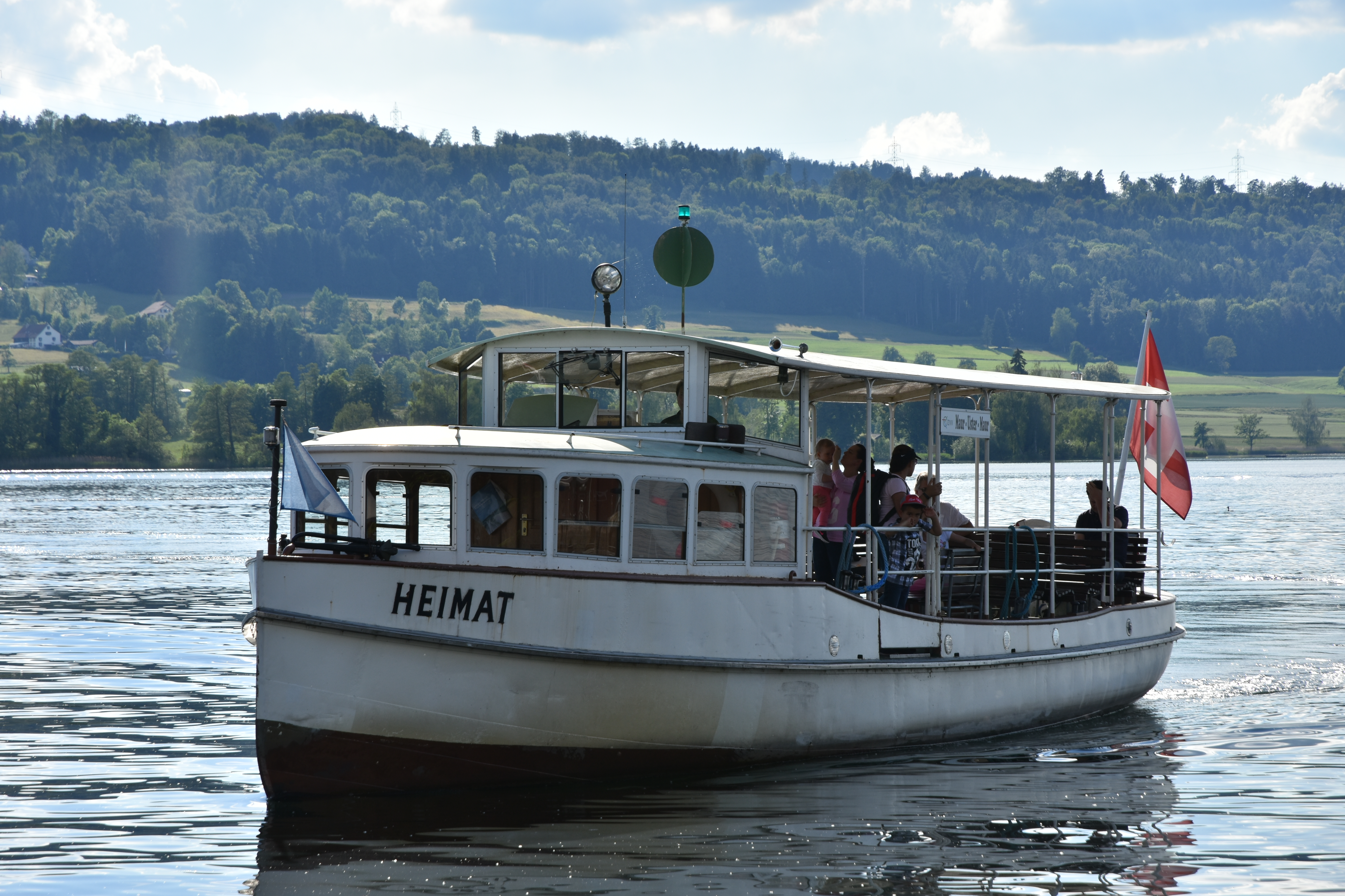 Greifensee at Niederuster, Pfannenstiel in the background.